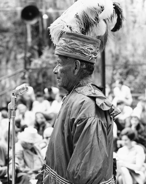 Seminole medicine man and baptist minister Josie Billie speaking at the Florida Folk Festival in White Springs, Florida between 1960 and 1975